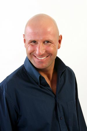 portrait of Davide Pratelli